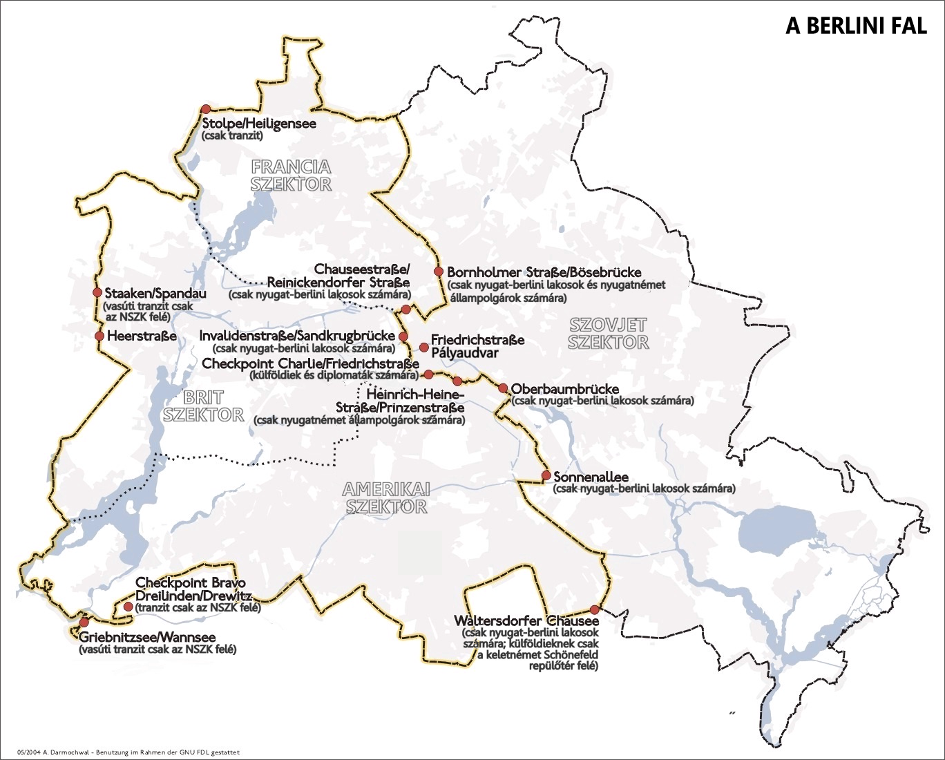 Berlin Wall and crossing points map with Hungarian localized labels